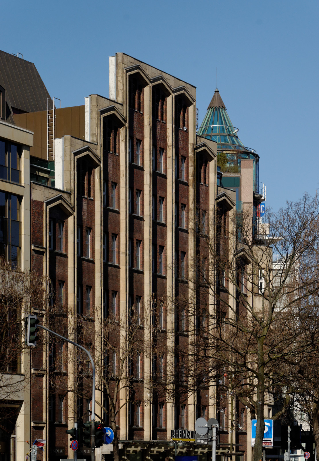 Facade Martin-Luther-Platz 26 in Düsseldorf-Stadtmitte, Germany